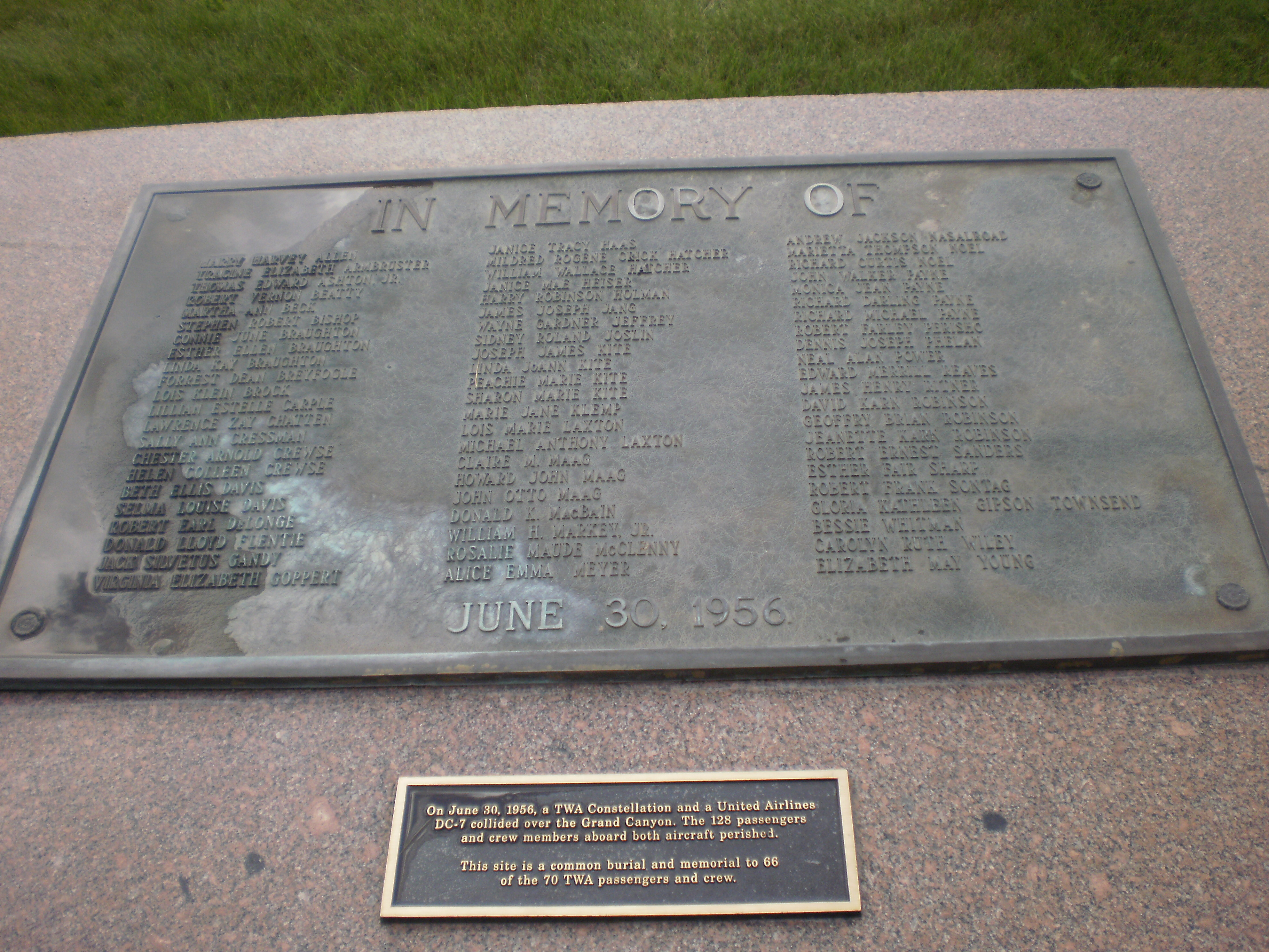 Burial site and memorial for the TWA passengers of the 1956 TWA/United Grand Canyon air disaster. Location is Citizen's Cemetery, Flagstaff, Arizona.